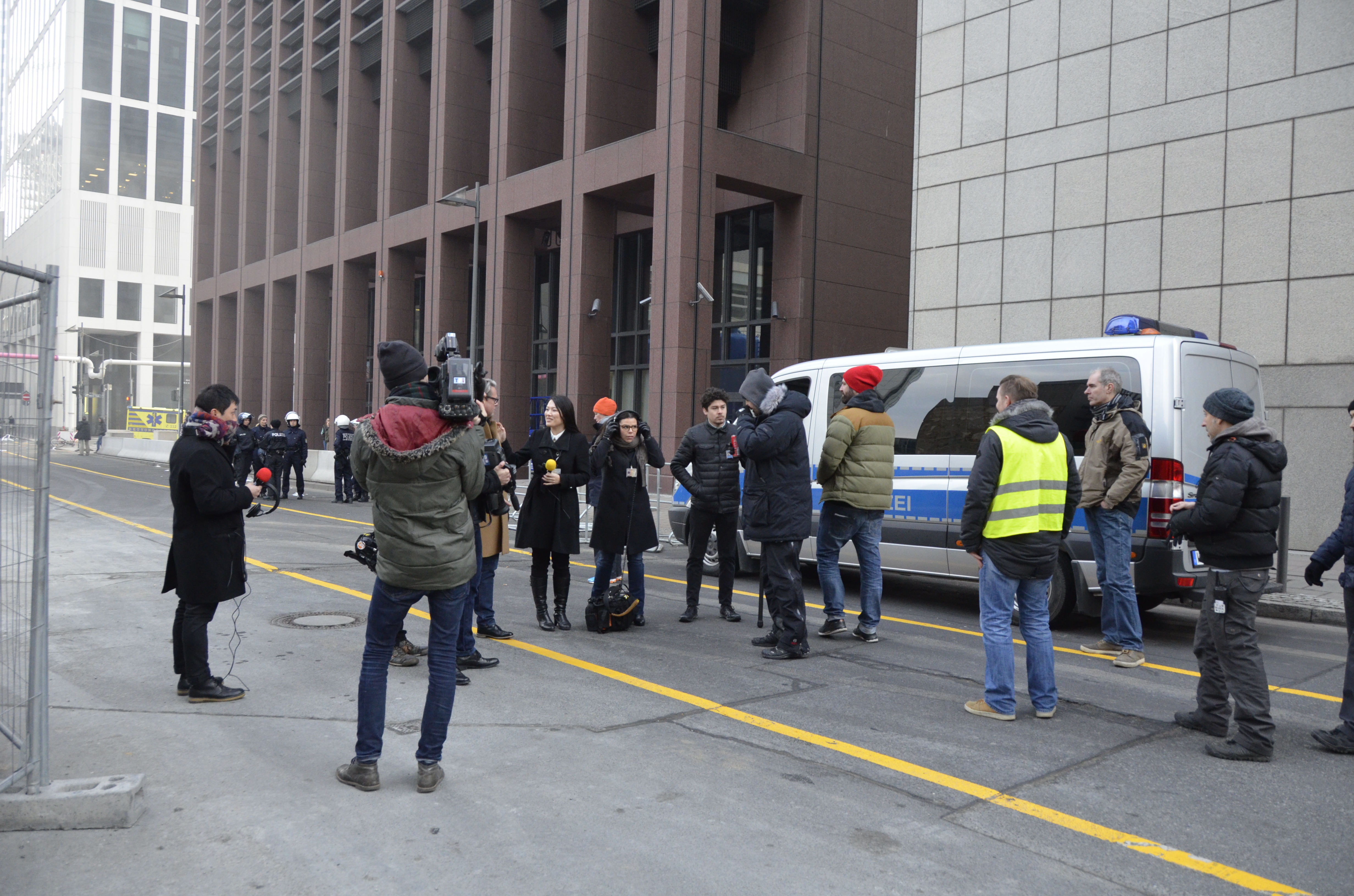 Shooting of the TV drama series Bad Banks in Frankfurt.